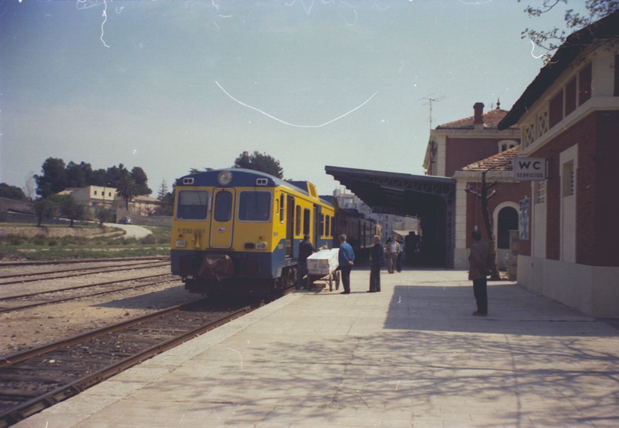 First travel automotor 592 RENFE from Valencia to Alcoi in april 1984